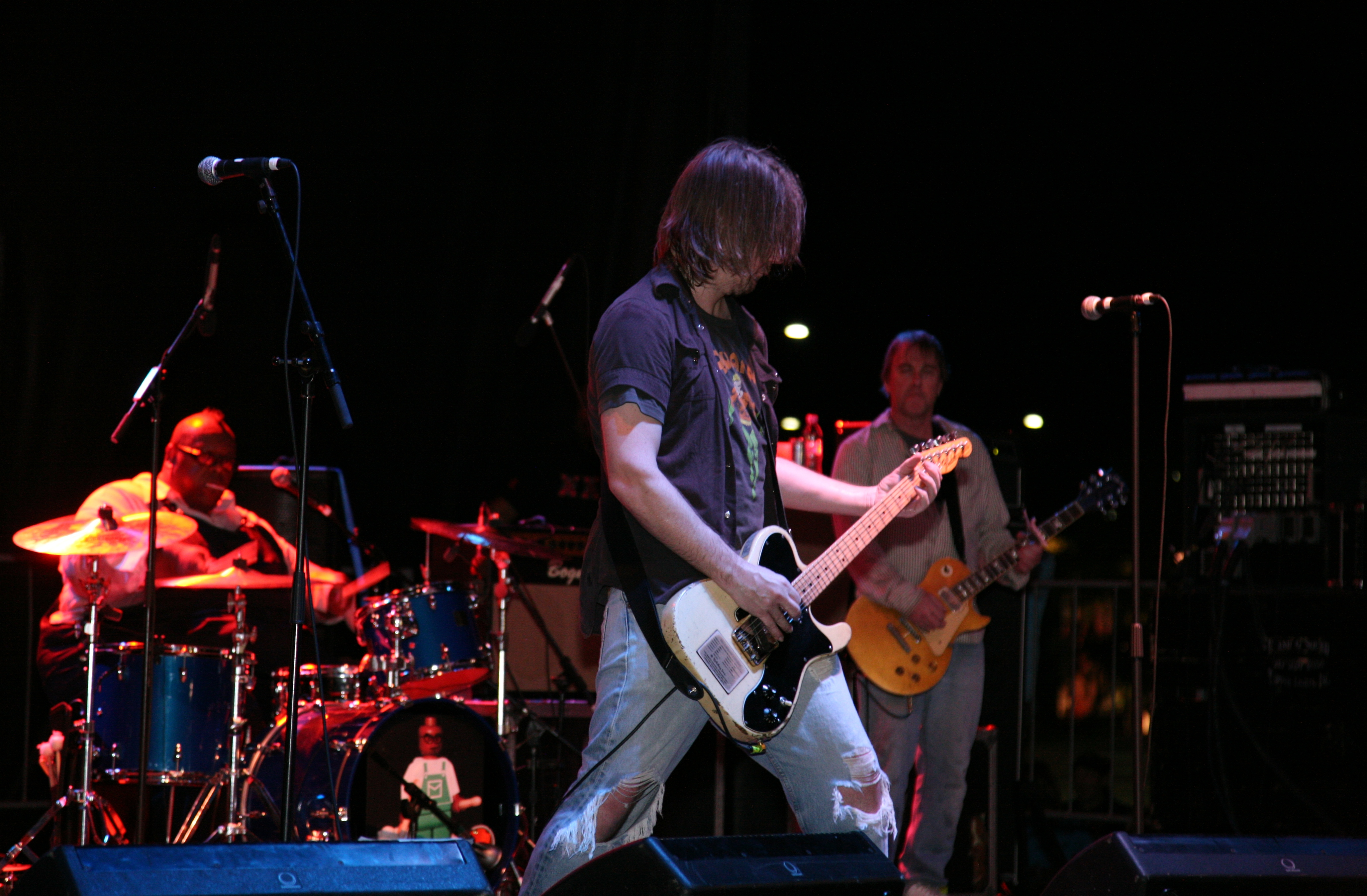 Soul Asylum in Urbana, Illinois. Left: Michael Bland (drums), center front: Dave Pirner (front man), right: Dan Murphy (guitarist)